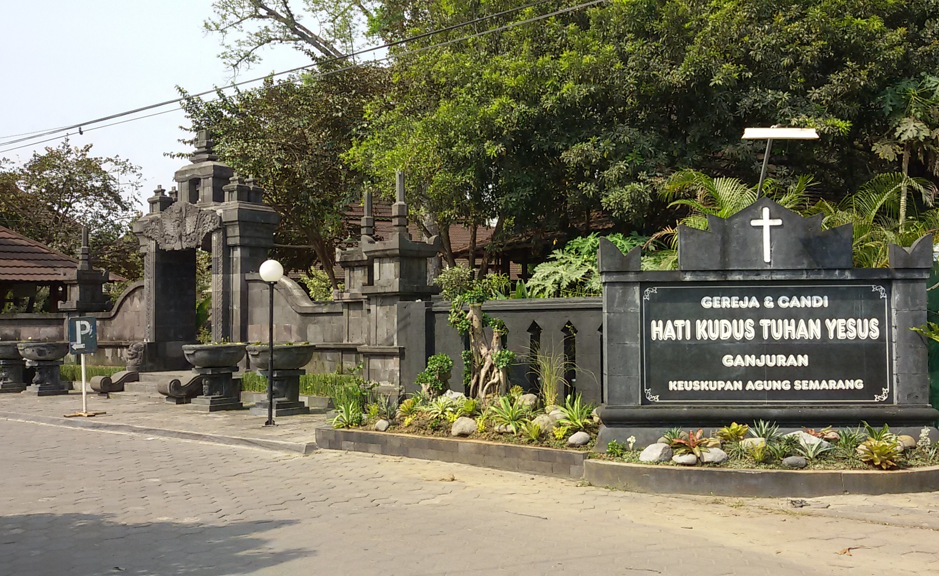 The front gate of Ganjuran Church